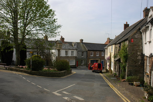 Stratton near Bude Cottages near the church in the village of Stratton.